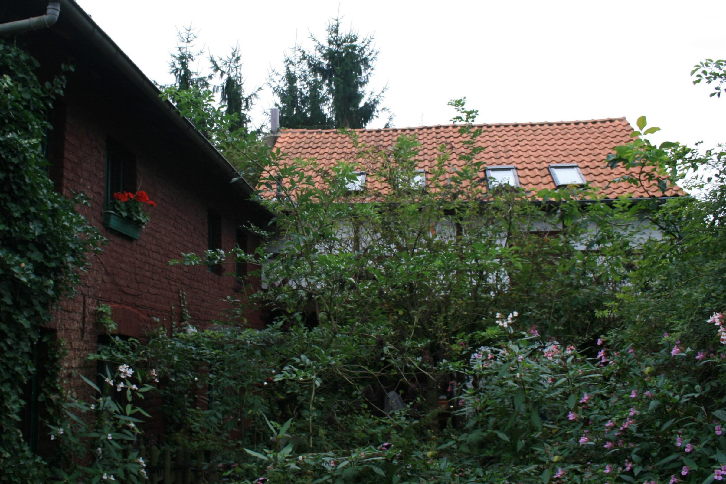 Cultural heritage monument No. U 010 in Mönchengladbach